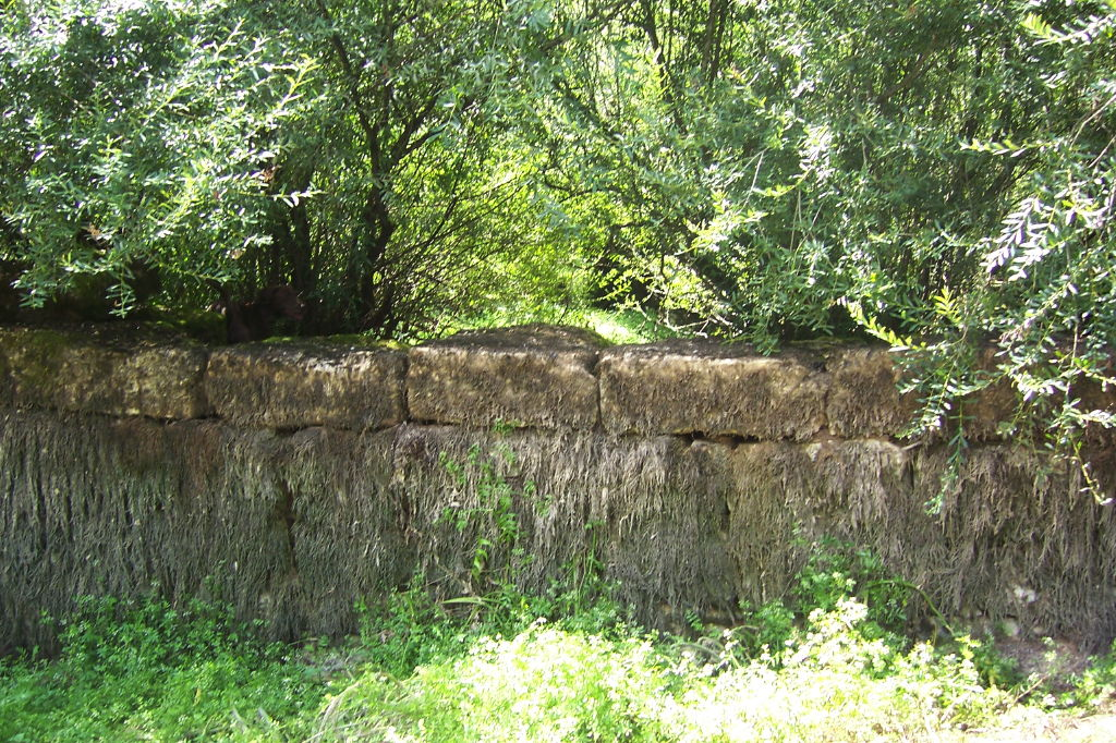 View of one side of an old double wall made of stones at resurgence of Cabouy of river Ouysse near the town of Rocamadour to bring water to an actually destroyed watermil.